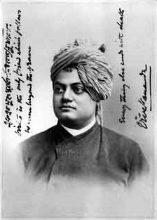 Swami Vivekananda 1893 Chicago image Harrison First publication The image was first published in Neely's History of the Parliament of Religions and Religious Congresses at the World's Columbian Exposition in 1893